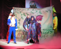 Opening of the Show